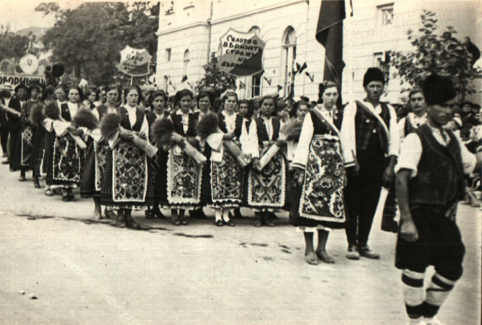 National costume of Bulgaria. Suvorovo